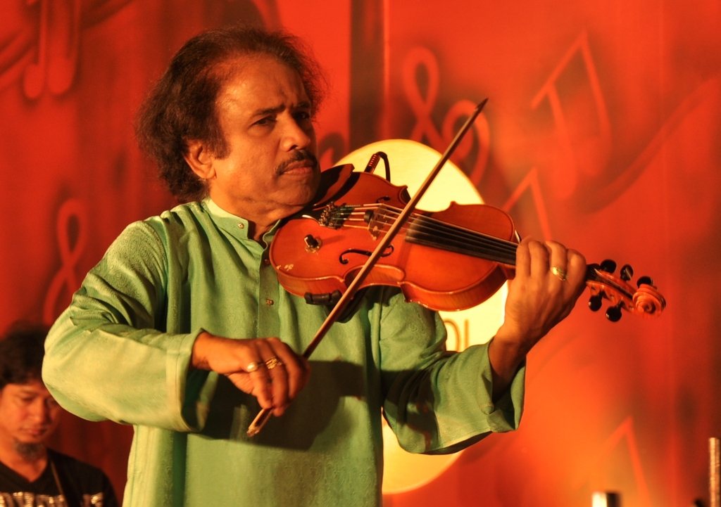 Dr. Lakshminarayana Subramaniam is an acclaimed Indian violinist, composer and conductor